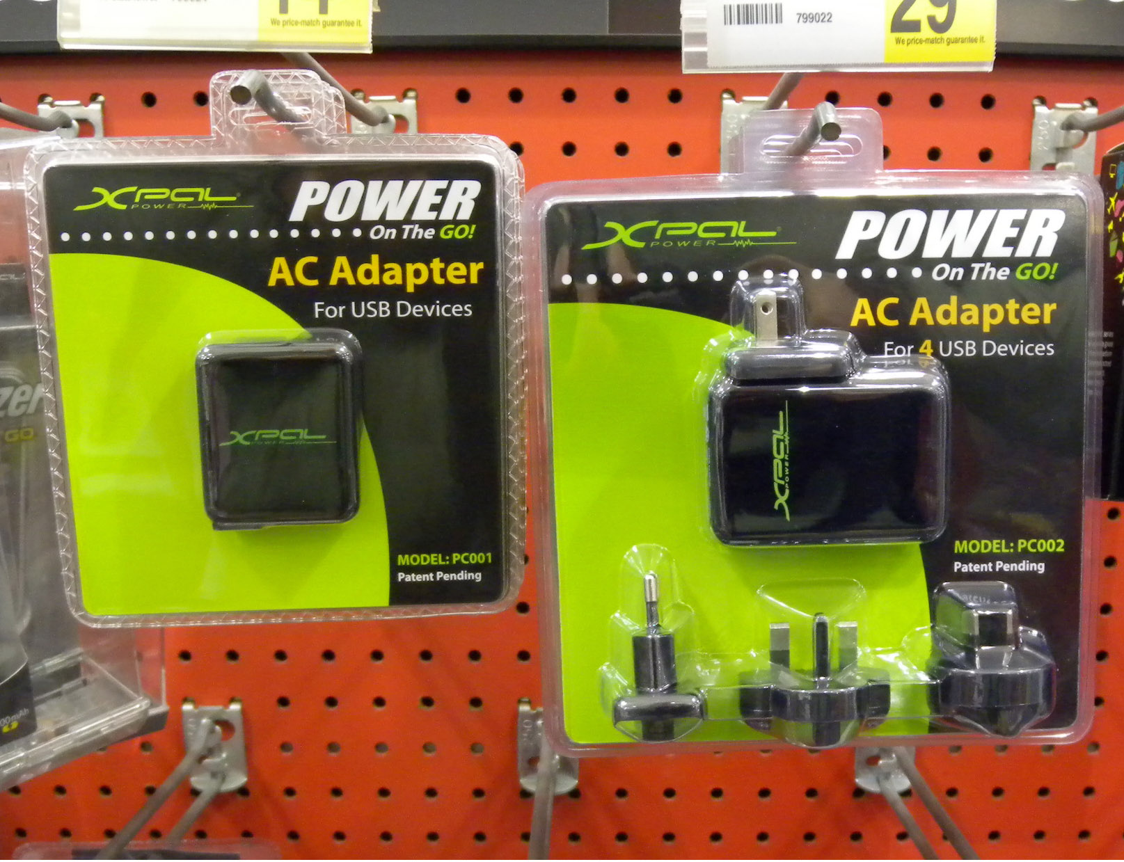 Two wall warts to convert AC to feed USB devices. Left is single USB port, NEMA plug only, for North America. Right is four ports, and prongs for use in various countries.